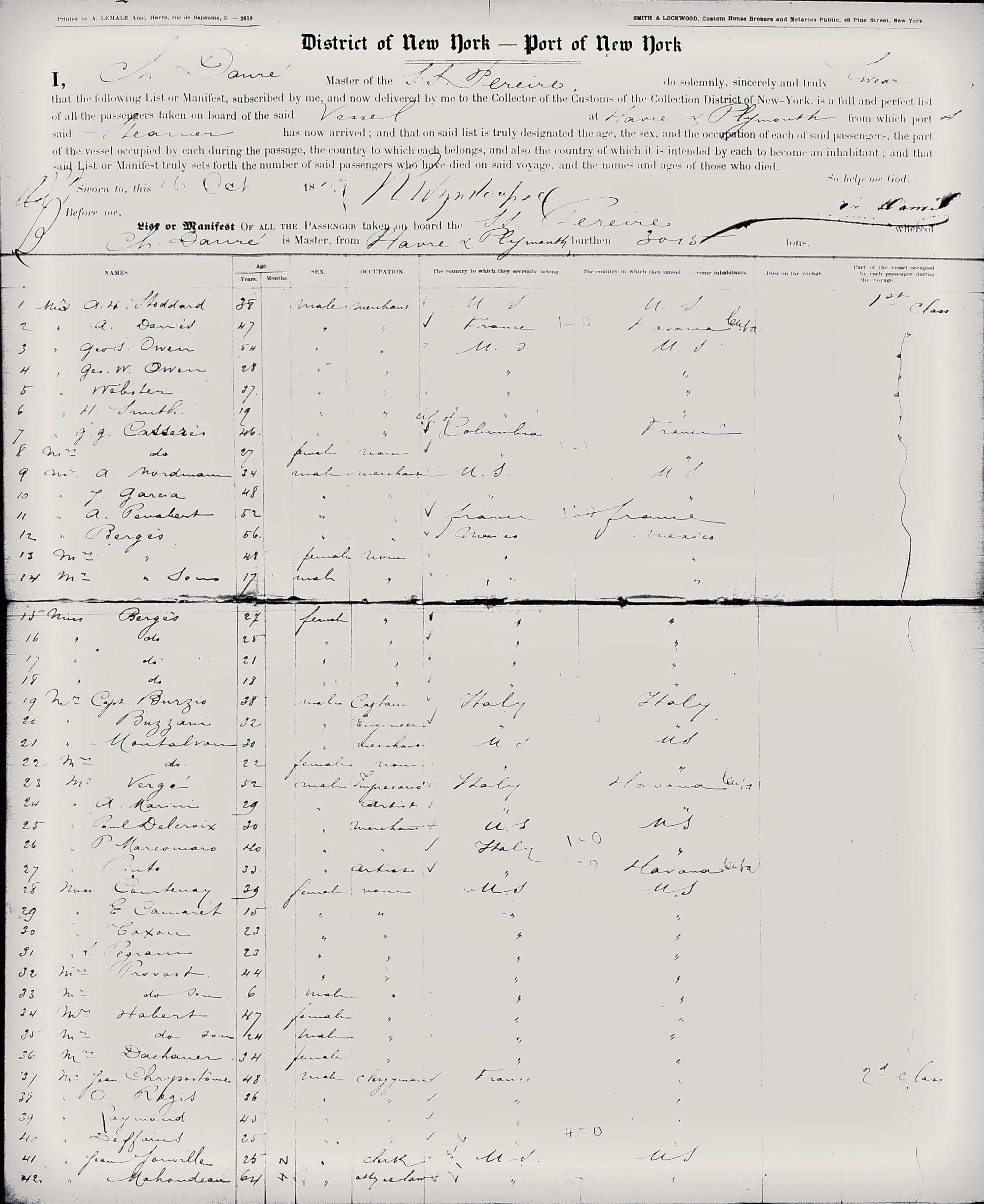 Lists of passengers of the French ship steamer S/S Pereire arriving in New York (United States) from Le Havre (France) and Plymouth (Great Britain), October 16, 1877. On board, the two photographers Auguste Daries (passenger n°2) and who will then go to Havana (Cuba) and Georges Penabert (passenger n°11) and will leave for France. Both visitors travel in first class. Note that the initial « a » Penabert name on the list is an error and it is a « g » for Georges. The ages recorded correspond to the civil status. Our two passengers go to Charles DeForest Fredricks, at 587 Broadway in New York.